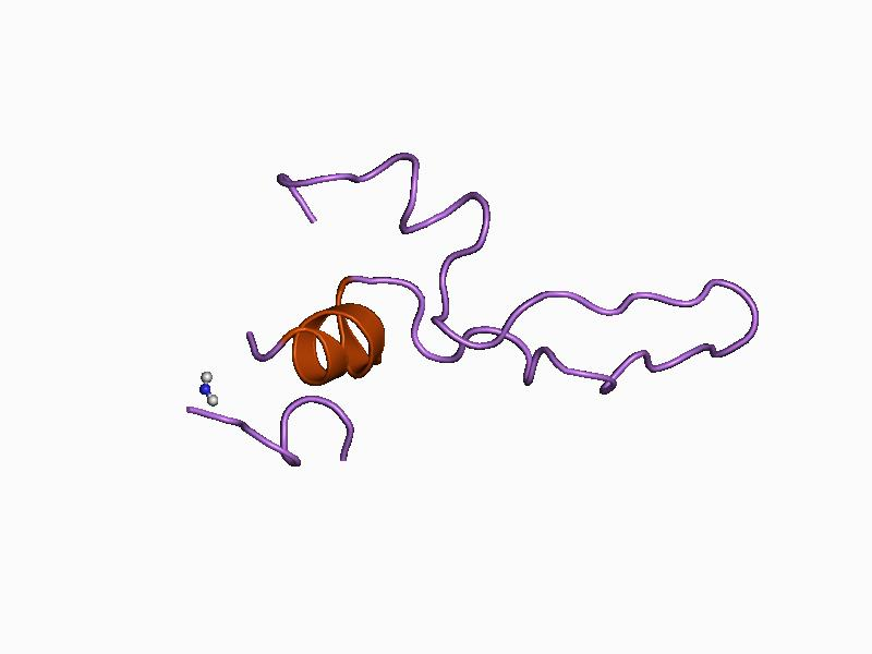 Cartoon representation of the molecular structure of protein registered with 1d6g code.